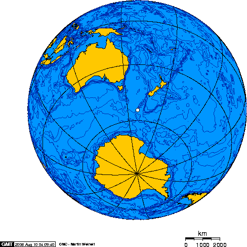 Orthographic projection over Macquarie Island